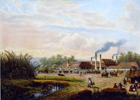 Plate number 4 of the book: "Java, naar schilderijen en teekeningen van A. Salm op steen gebracht door Johan Conrad Greive, jr. (1837-1891)", Publisher: Frans Buffa & Zonen, Amsterdam (1865/1872). The copyright has been expired.